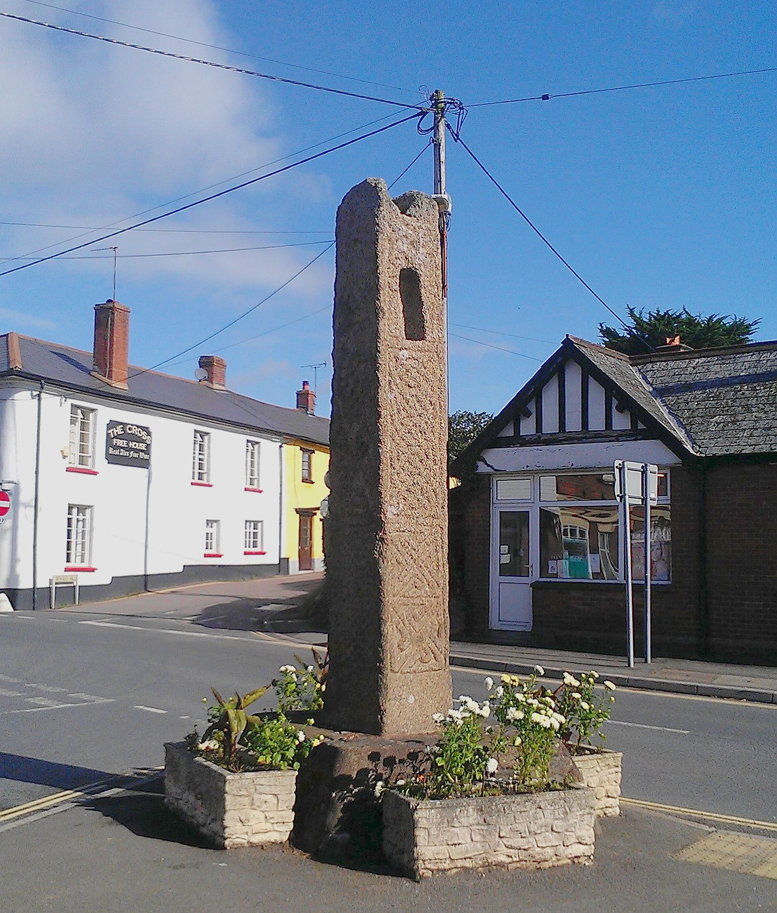 The Copplestone Cross, an early medieval marker in Copplestone, Devon.